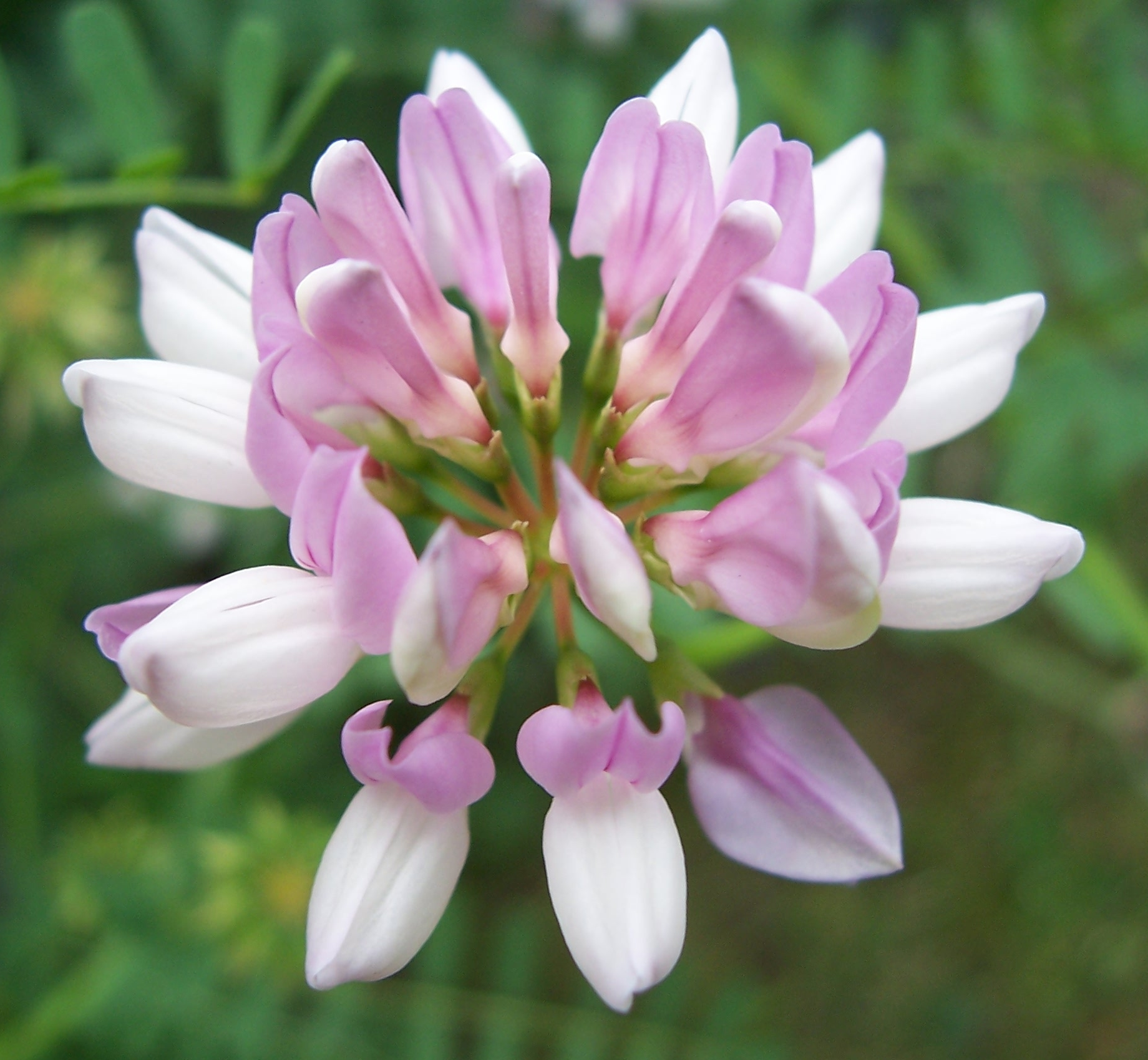 Securigera varia (formerly Coronilla varia, commonly known as crown vetch)